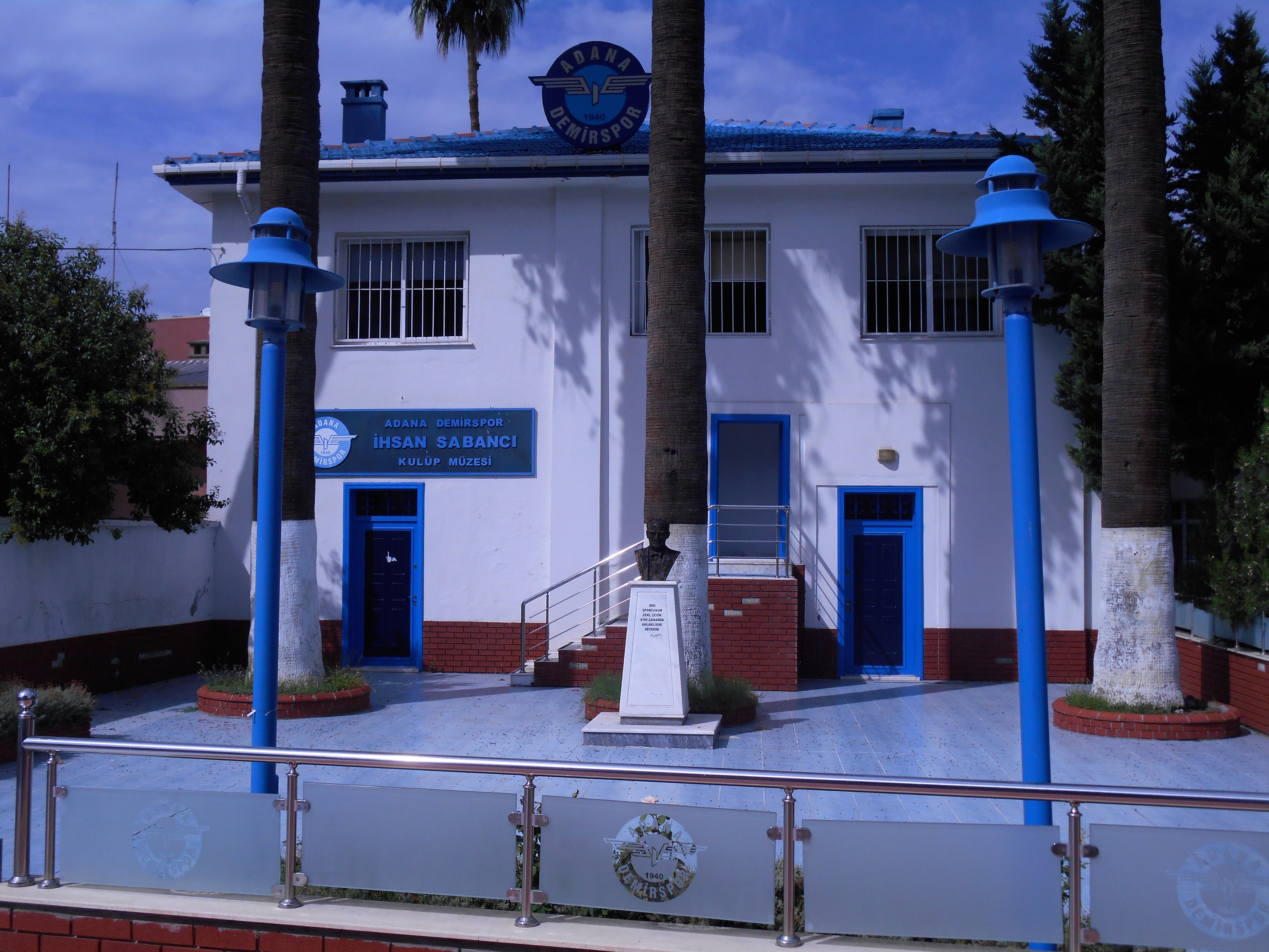 Adana Demirspor Museum